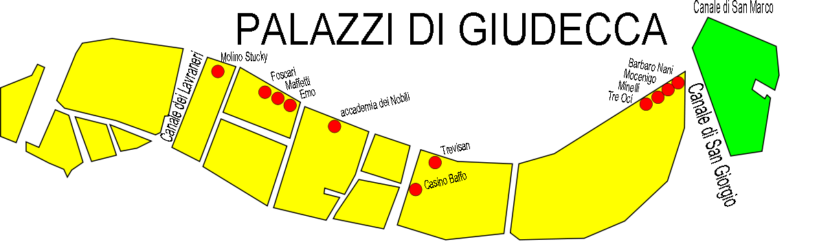 palaces in Giudecca - Venice